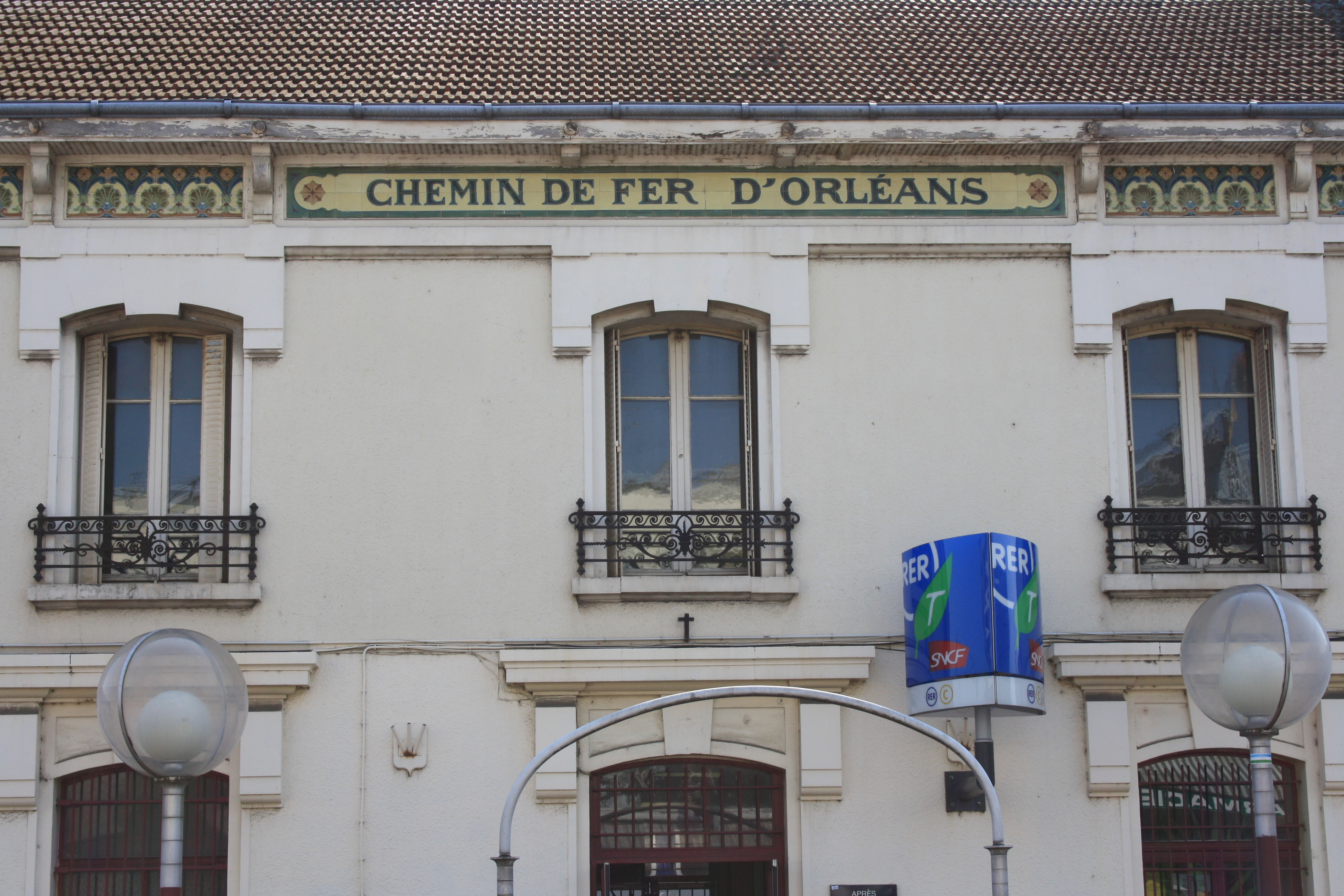 Savigny-sur-Orge railway station in France